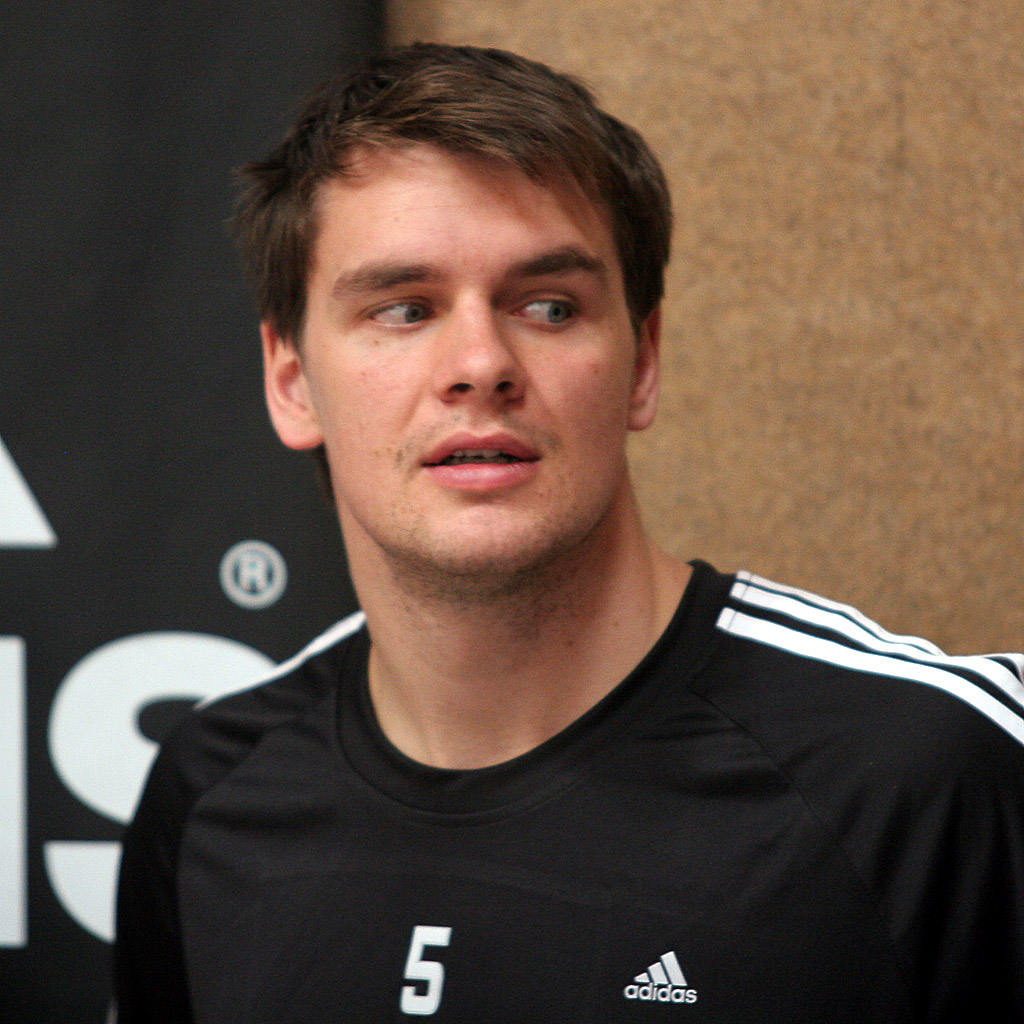 Arnor Atlason, handball player from Iceland on August 30th, 2008 in Ehingen prior a game for the Schlecker Cup 2008